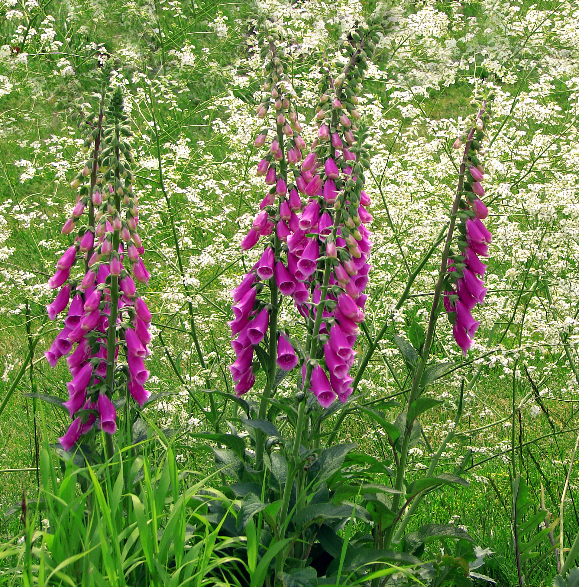 Digitalis purpurea. Foxglove